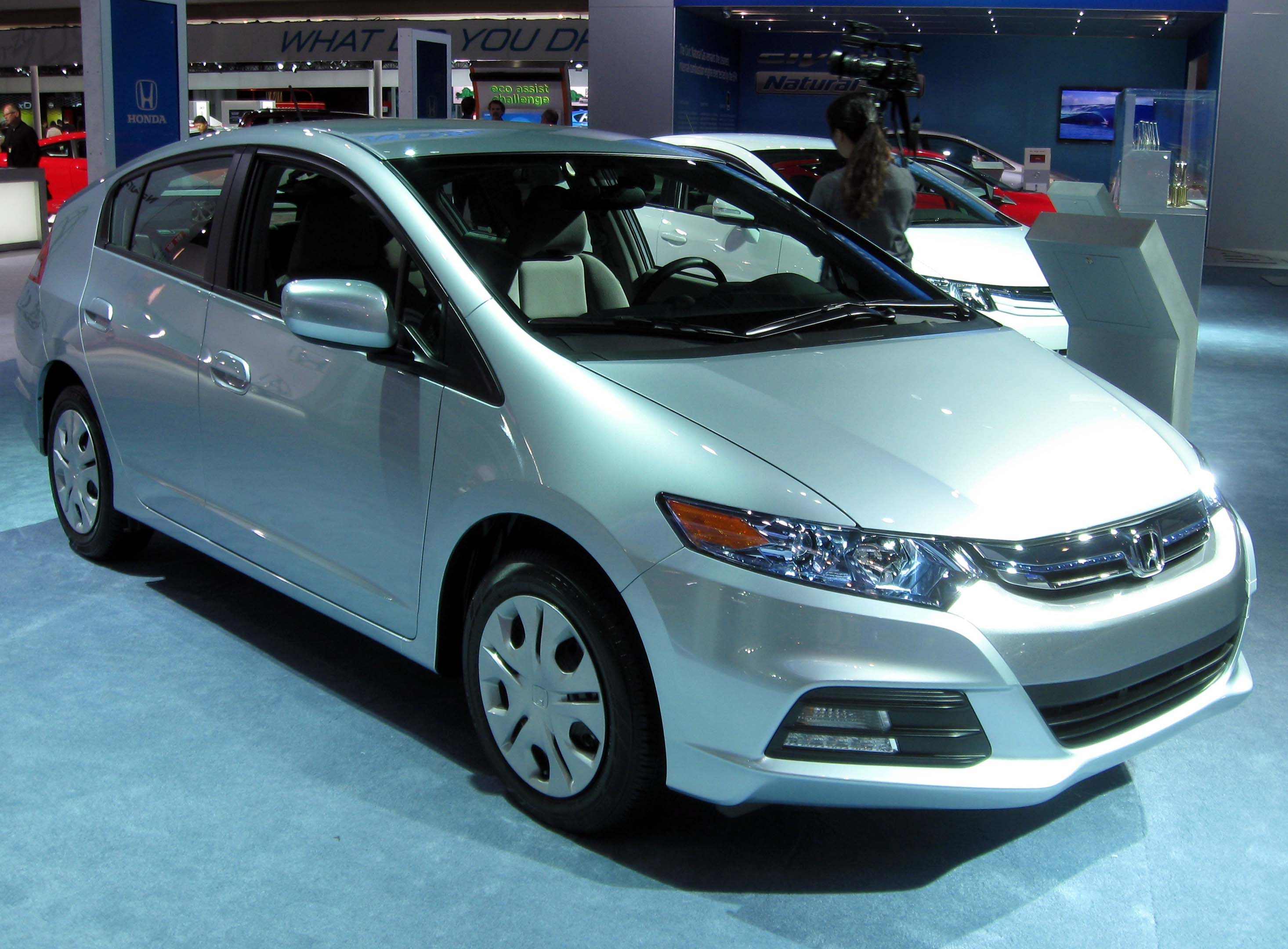 2012 Honda Insight photographed at the 2012 New York International Auto Show.